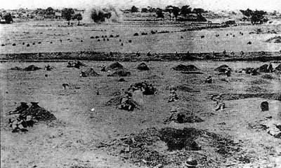 NRA troops attack the Japanese occupied Zaoyang. “我国军攻敌人所陷之枣阳城”